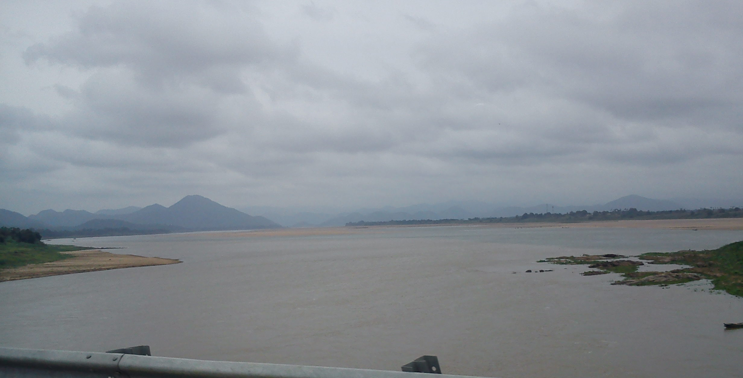 Sabari river merging into Godavari near Kunavaram, Khammam district